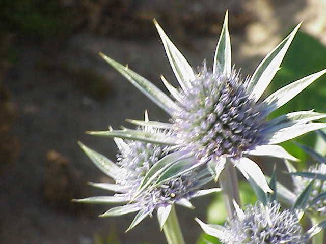 Species: Eryngium tricuspidatum Family: Umbelliferae Image No. 1